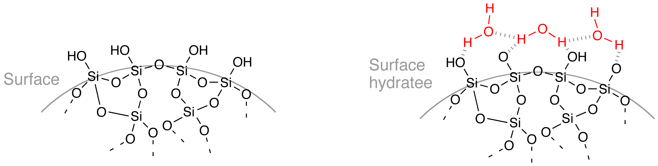 Surface structure of silica gel, dry and hydrated